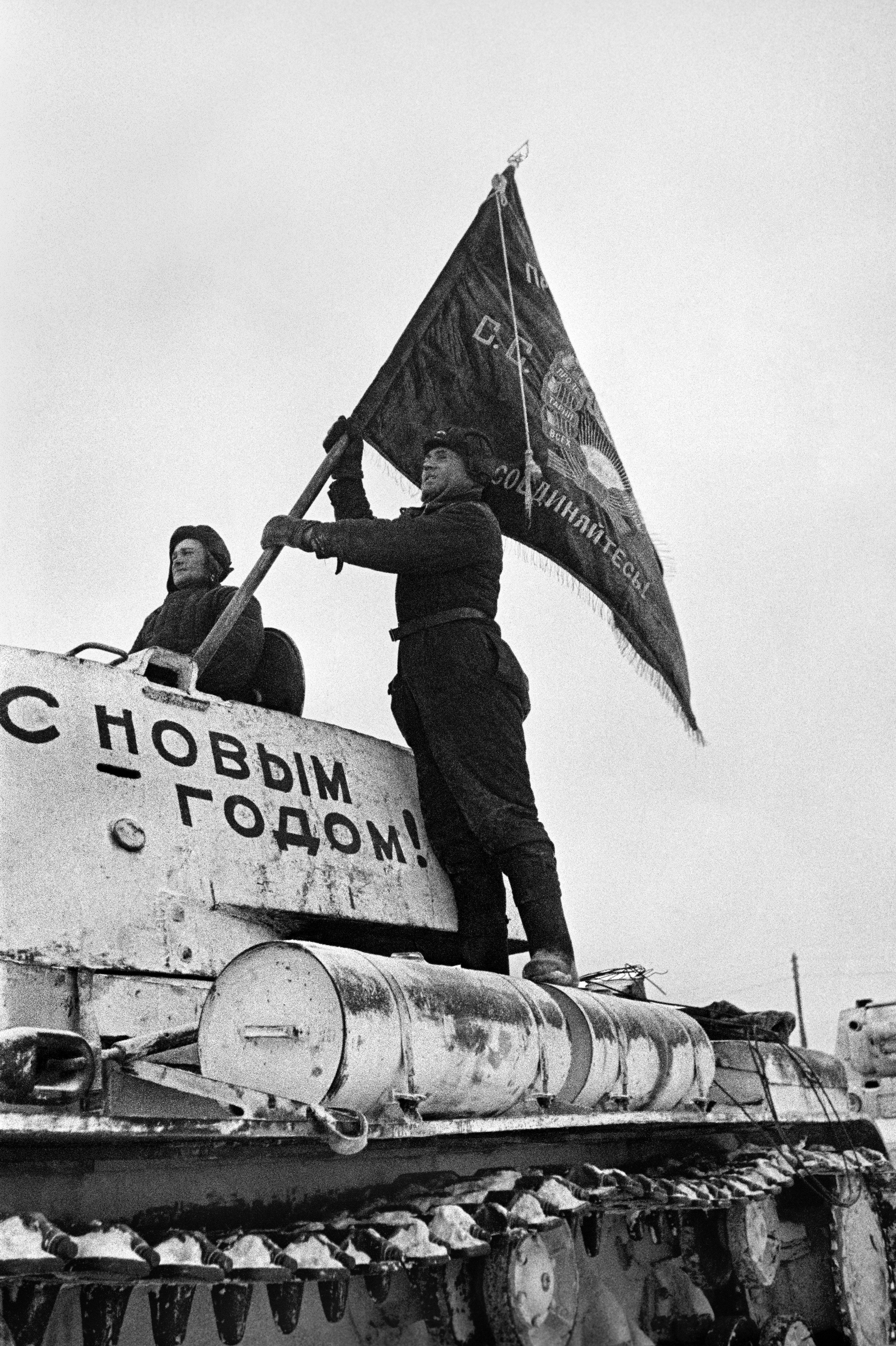 “Tankmen going to the front”.. A tankmen raising a flag on the tank. Tankmen going to the front. Moscow's defense. December 31, 1941.